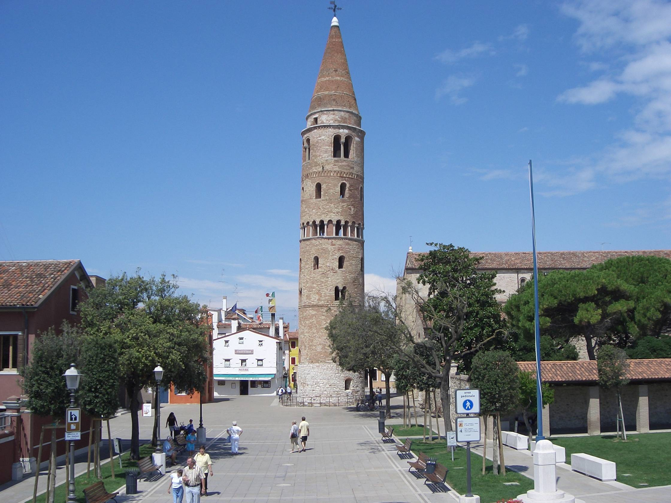 Tower of the former cathedral in Caorle, Italy